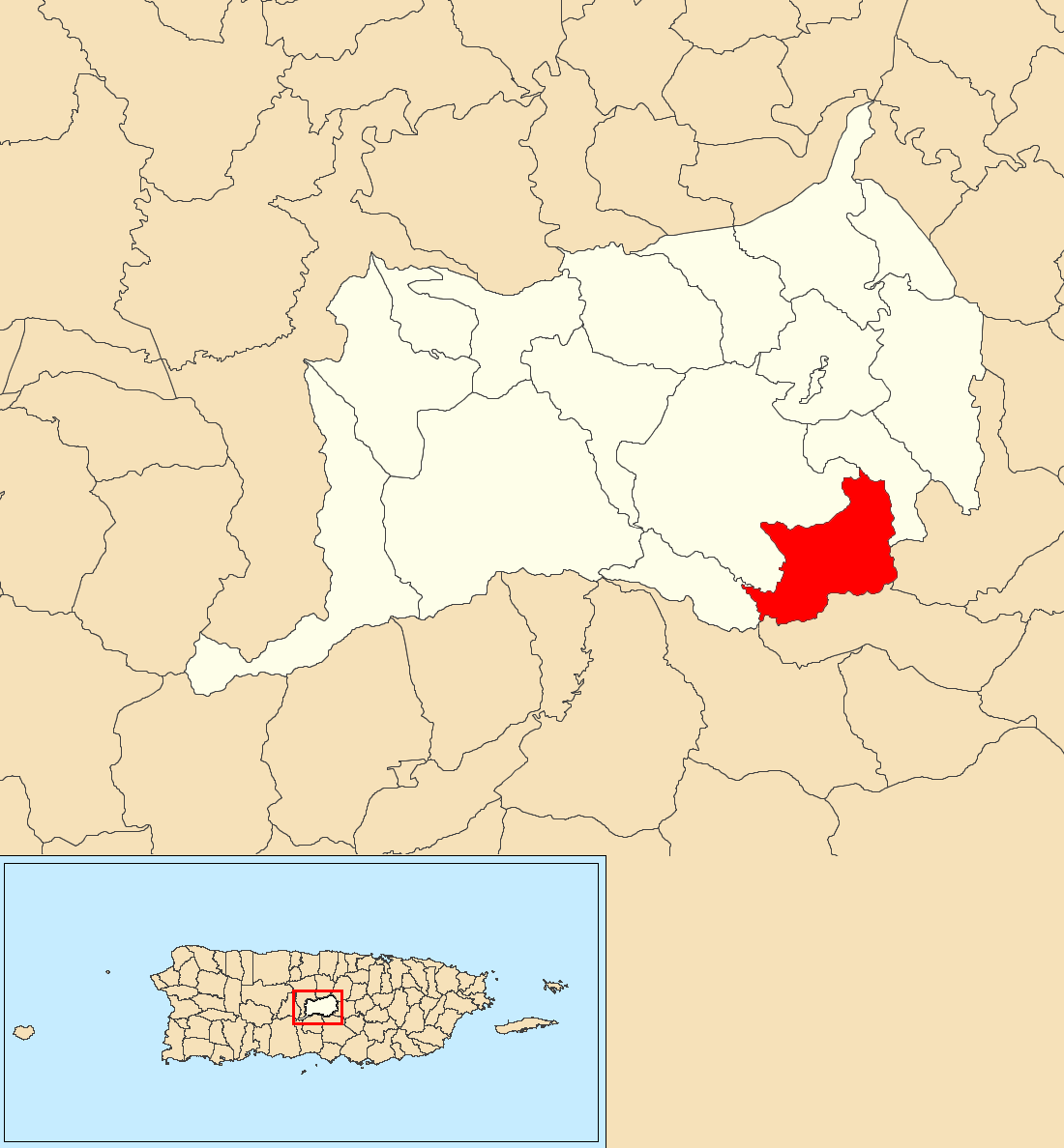 Bauta Arriba, Orocovis, Puerto Rico locator map